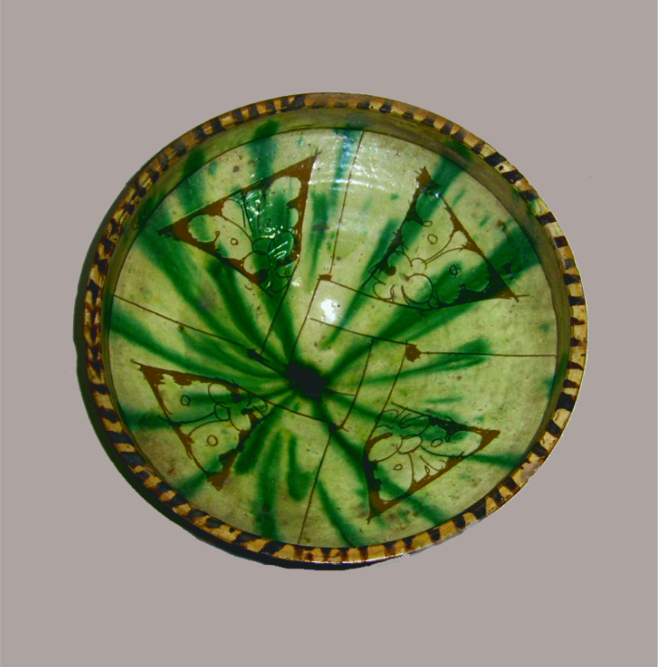 Glazed pottery from Yeghegis, 12th-13th centuries